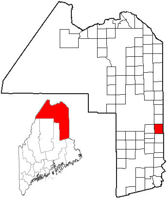 Adapted from U.S. Census Bureau maps (American FactFinder) and Wikipedia's ME county maps by Bumm13.